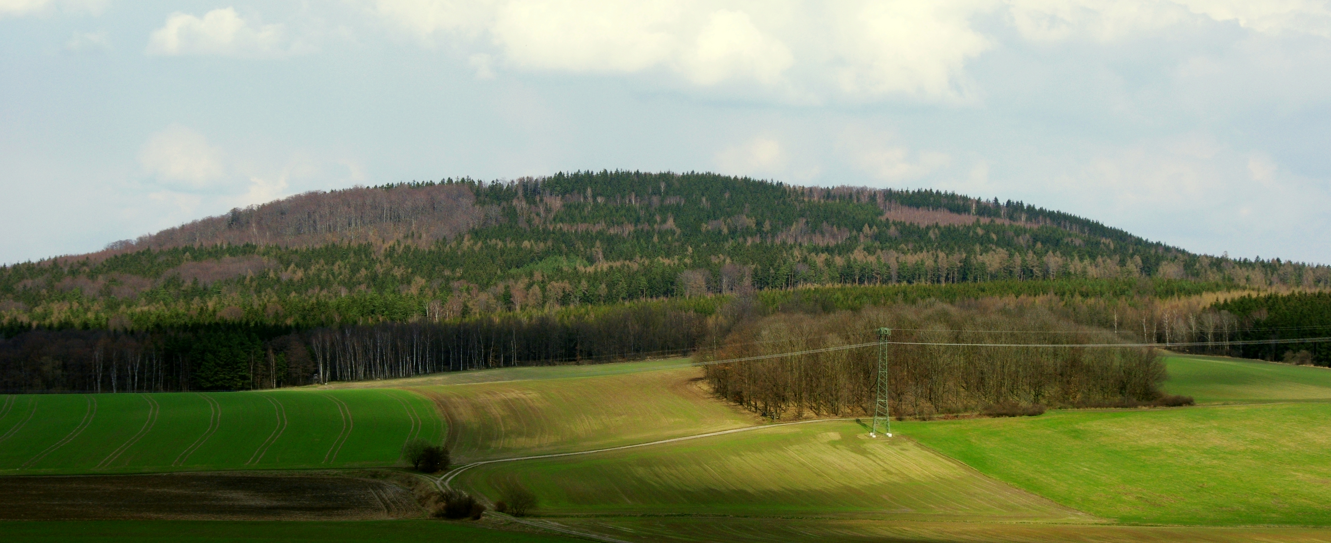 The forest Königsholz near Oderwitz in Germany.